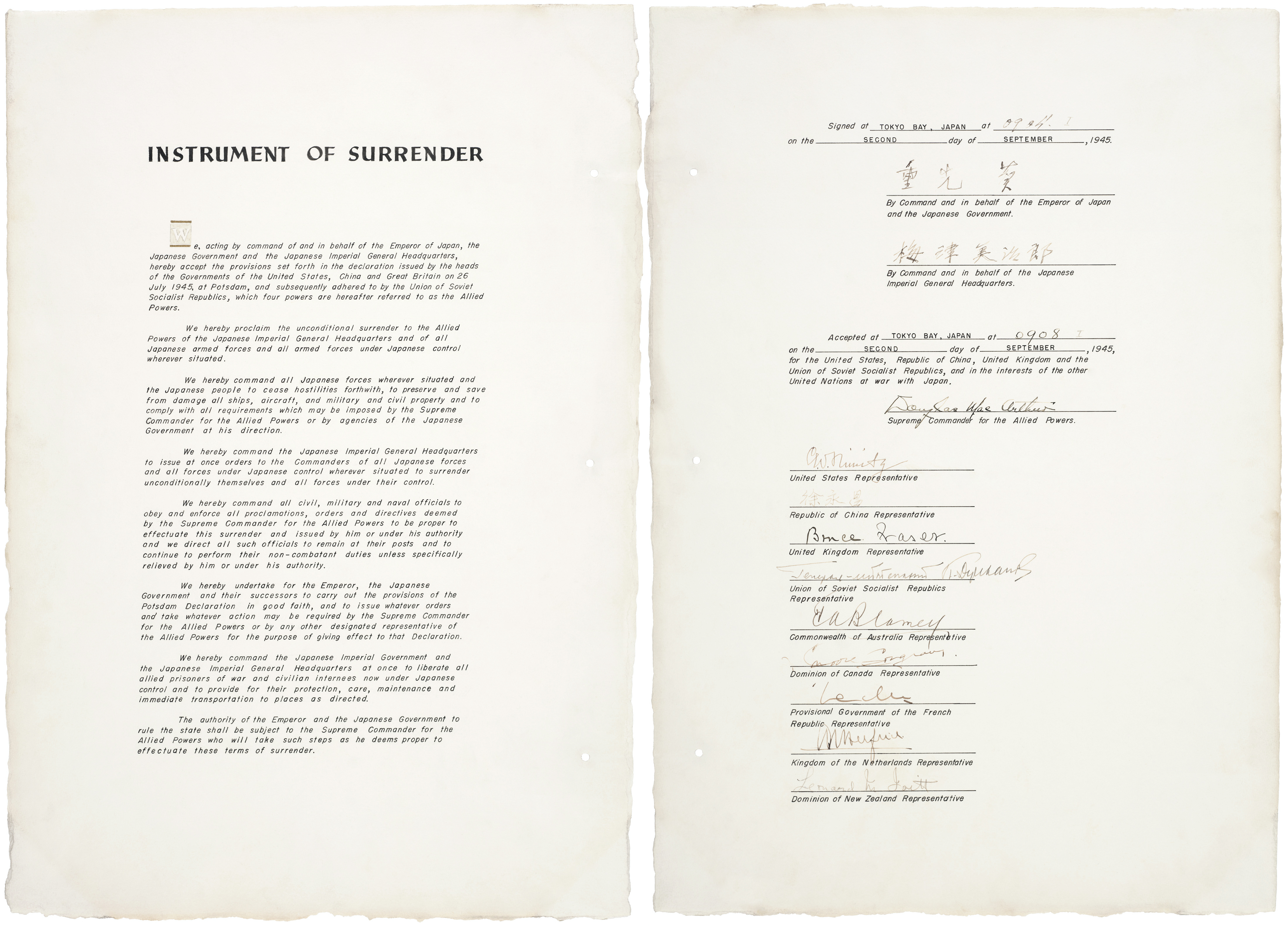 Instrument of surrender for Japan, World War II. Mamoru Shigemitsu By Command and in behalf of the Emperor of Japan and the Japanese Government Yoshijiro Umezu By Command and in behalf of the Japanese Imperial General Headquarters Accepted at TOKYO BAY, JAPAN at 0908 on the SECOND day of SEPTEMBER, 1945, for the United States, Republic of China, United Kingdom and the Union of Soviet Socialist Republics, and in the interests of the other United Nations at war with Japan. Douglas MacArthur Supreme Commander for the Allied Powers After MacArthur's signature as Supreme Commander, the following representatives signed the instrument of surrender on behalf of each of the Allied Powers: Fleet Admiral Chester Nimitz for the United States (9:12 a.m.).[1] General Hsu Yung-Ch'ang for the Republic of China (9:13 a.m.).[2] Admiral Sir Bruce Fraser for the United Kingdom (9:14 a.m.).[3] Lieutenant General Kuzma Derevyanko for the Soviet Union (9:16 a.m.).[4] General Sir Thomas Blamey for Australia (9:17 a.m.).[5] Colonel Lawrence Moore Cosgrave for Canada (9:18 a.m.).[6] Général d'Armée Philippe Leclerc de Hautecloque for France (9:20 a.m.).[7] Luitenant-Admiraal C.E.L. Helfrich for the Netherlands (9:21 a.m.).[8] Air Vice-Marshal Leonard M. Isitt for New Zealand (9:22 a.m.).[9]